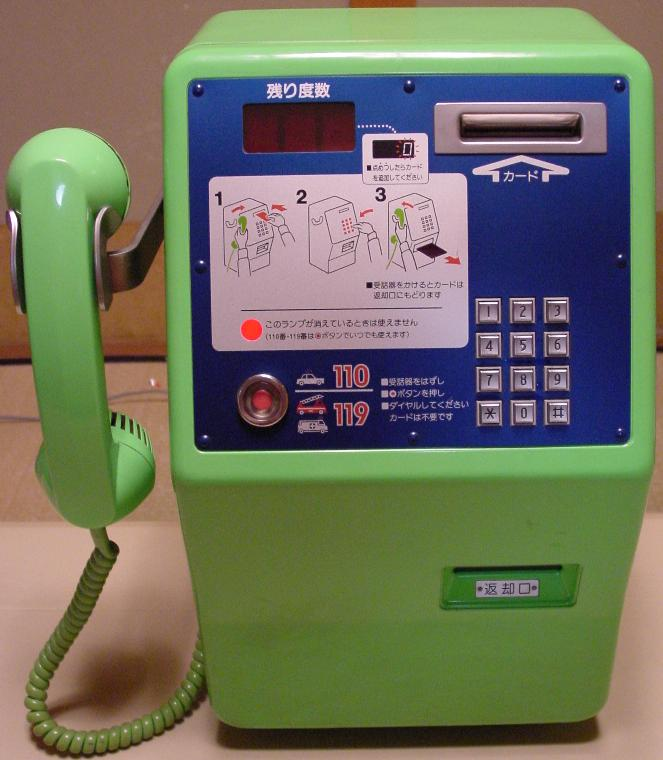 Dendenkousha (Nippon Telephone and Telegraph) MC-2 Telephone Card Payphone. Owned by and Photographed by Takuya Nakayama. One of the earlier NTT's Telephone Card Payphone only accept Telephone Card for the call. 日本電信電話公社、（現NTTの前身）のMC-2テレホンカード電話機です。MC-2テレホンカード電話機は、初期のカード専用公衆電話機として、公共の場所に多く設置されていました。中山卓也が写真の電話の撮影をし、コレクションの１つとして所有しています。